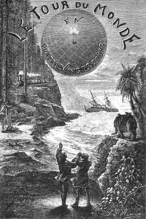 Original illustration by Alphons de Neuvill and/or Léon Benett from French edition novel of Jules Verne "Around the World in Eighty Days".